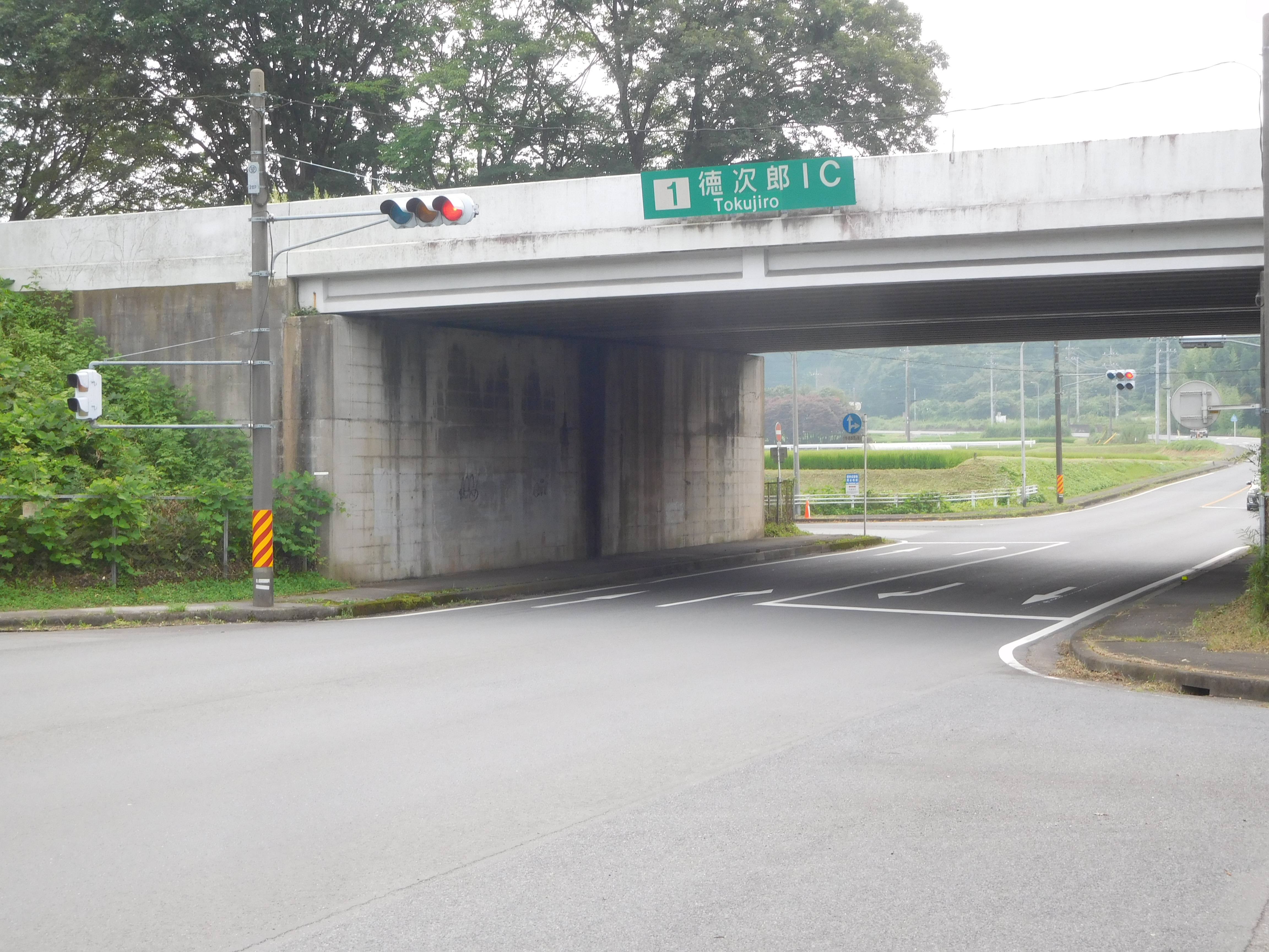 This is Tokujiro Interchange in Utsunomiya, Tochigi, Japan.